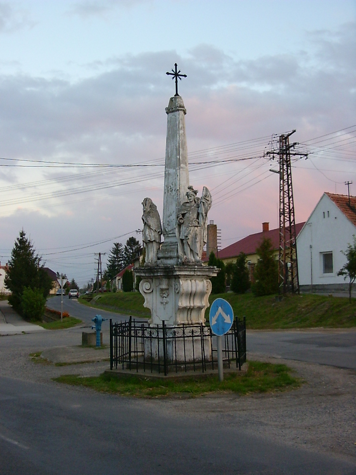 The sculptures of Saint Florian, Saint Donatus and Saint John in Pereszteg This is a photo of a monument in Hungary, Identifier: 4653